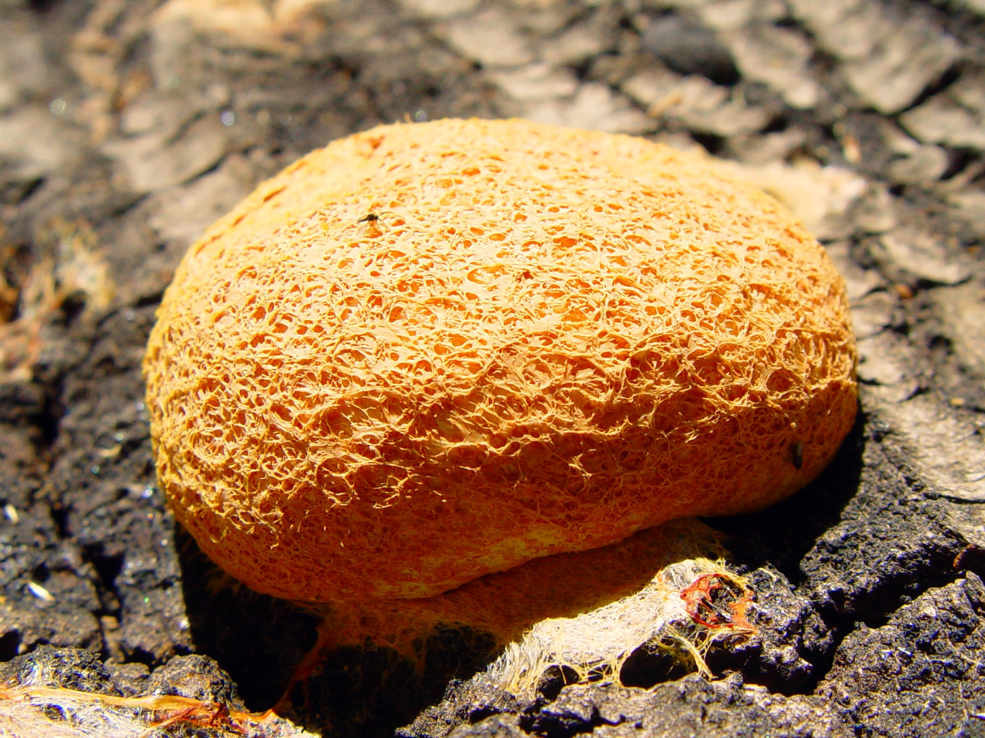 og Vomit Slime Mold (Fuligo septica) Family: Physaridae Class: Mycetozoa Kingdom: Protista (not a fungus!) China Camp State Park Marin County, CA